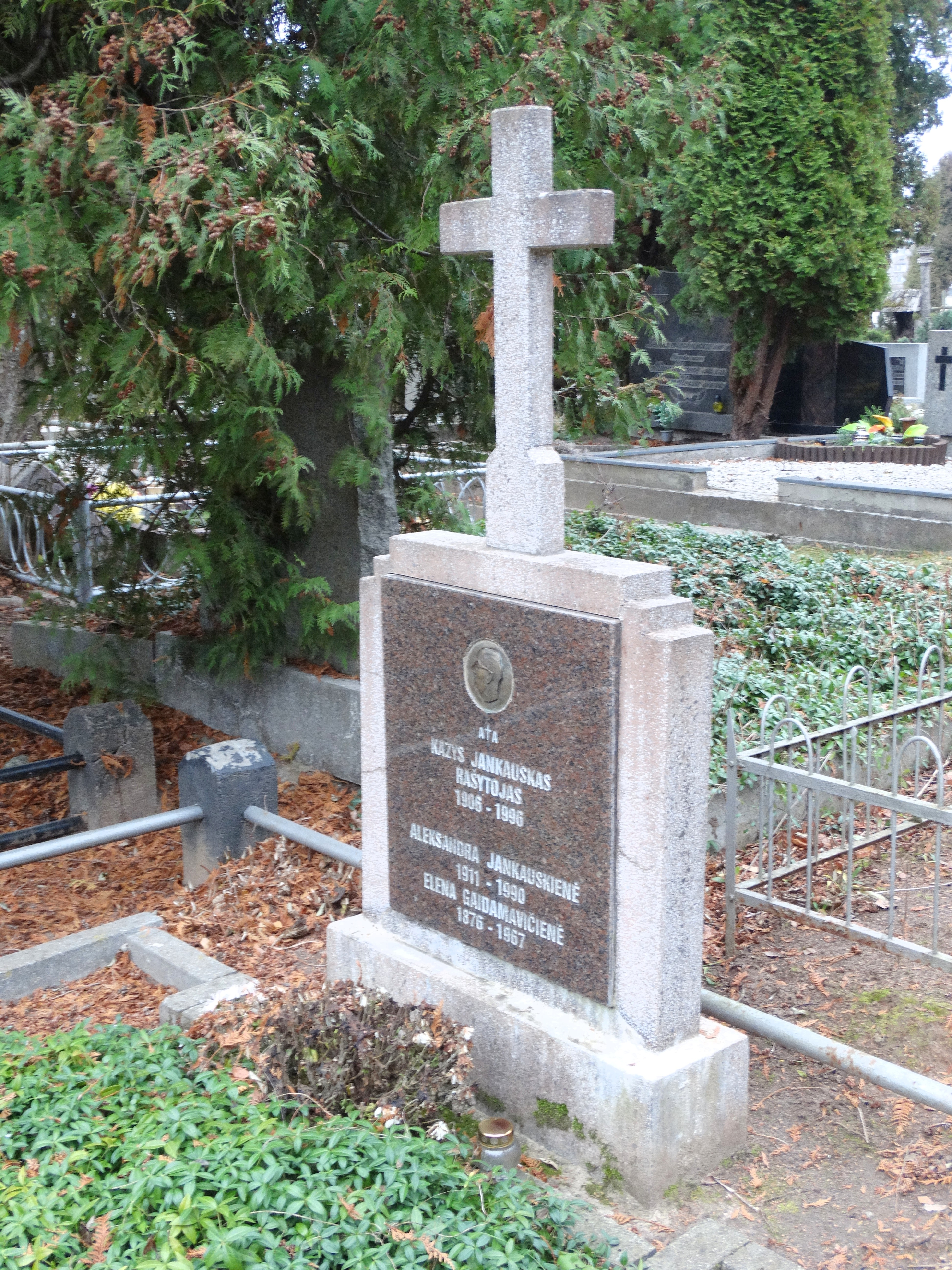 Tomb of Kazys Jankauskas, Eiguliai cemetery, Lithuania